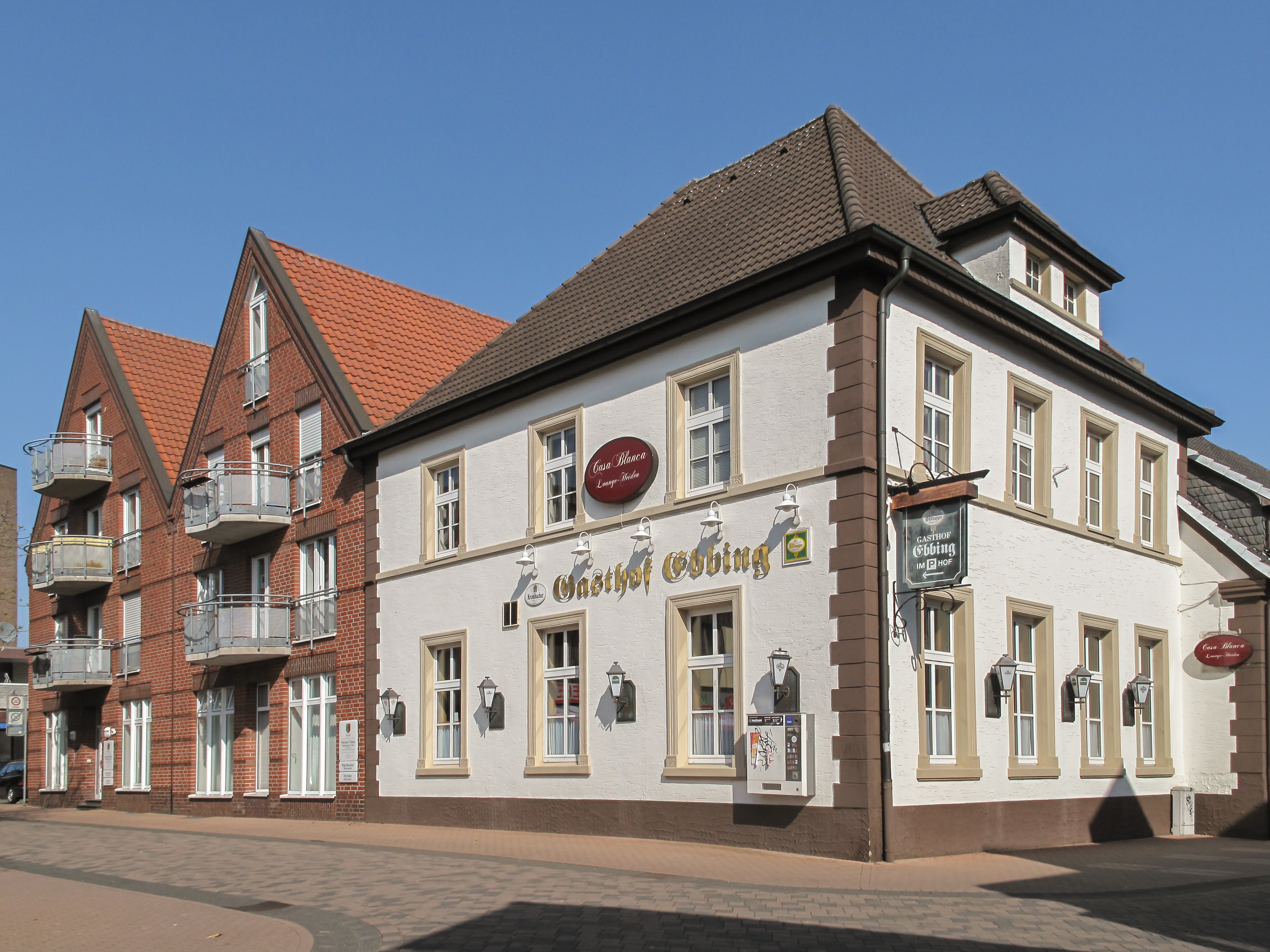 Heiden, Gasthof in the street